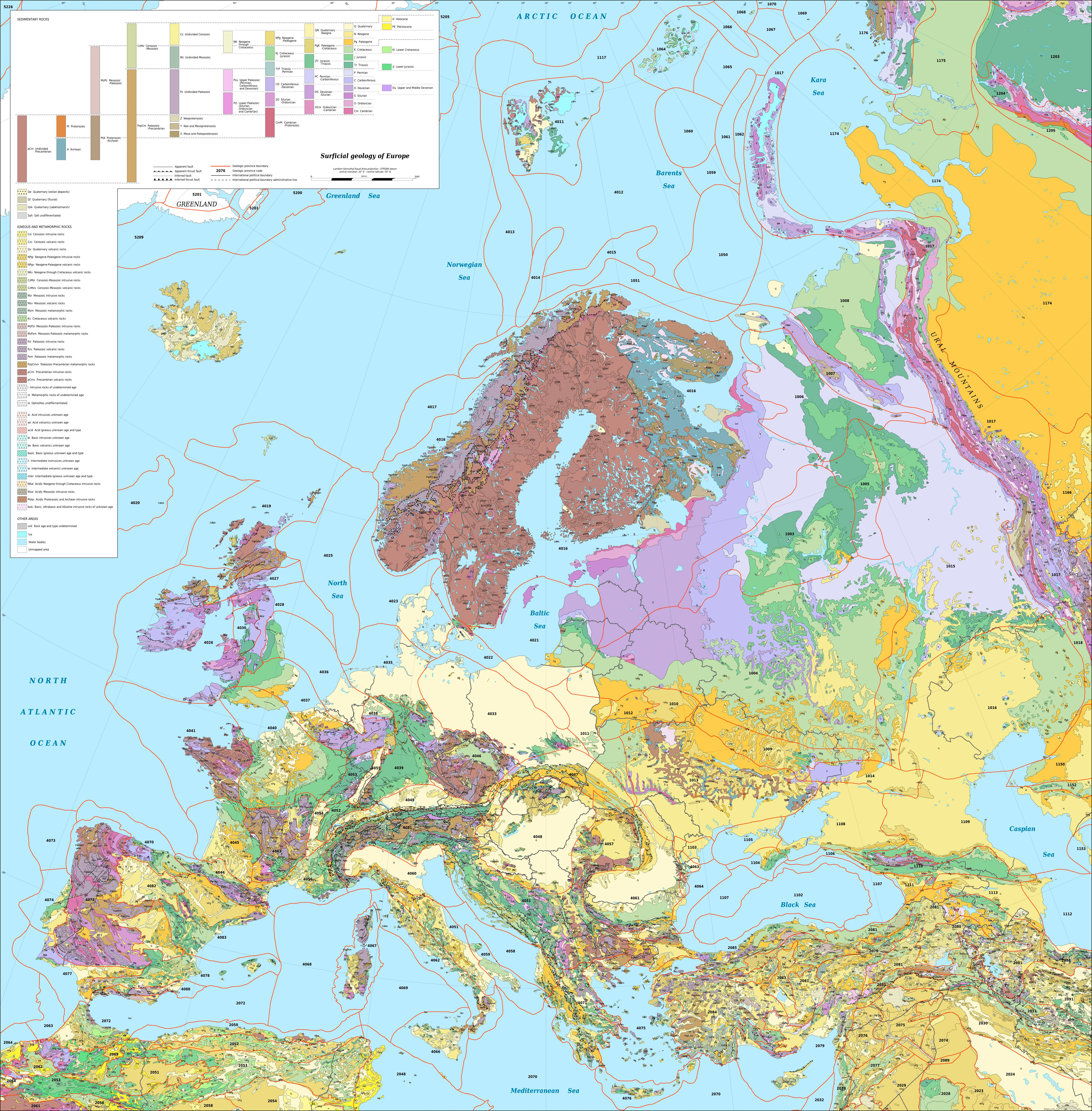 Map in English of the surficial geology of Europe.Notes: For translations use the SVG version.A list of the names corresponding to the geologic provinces codes displayed on the map can be viewed on this page.